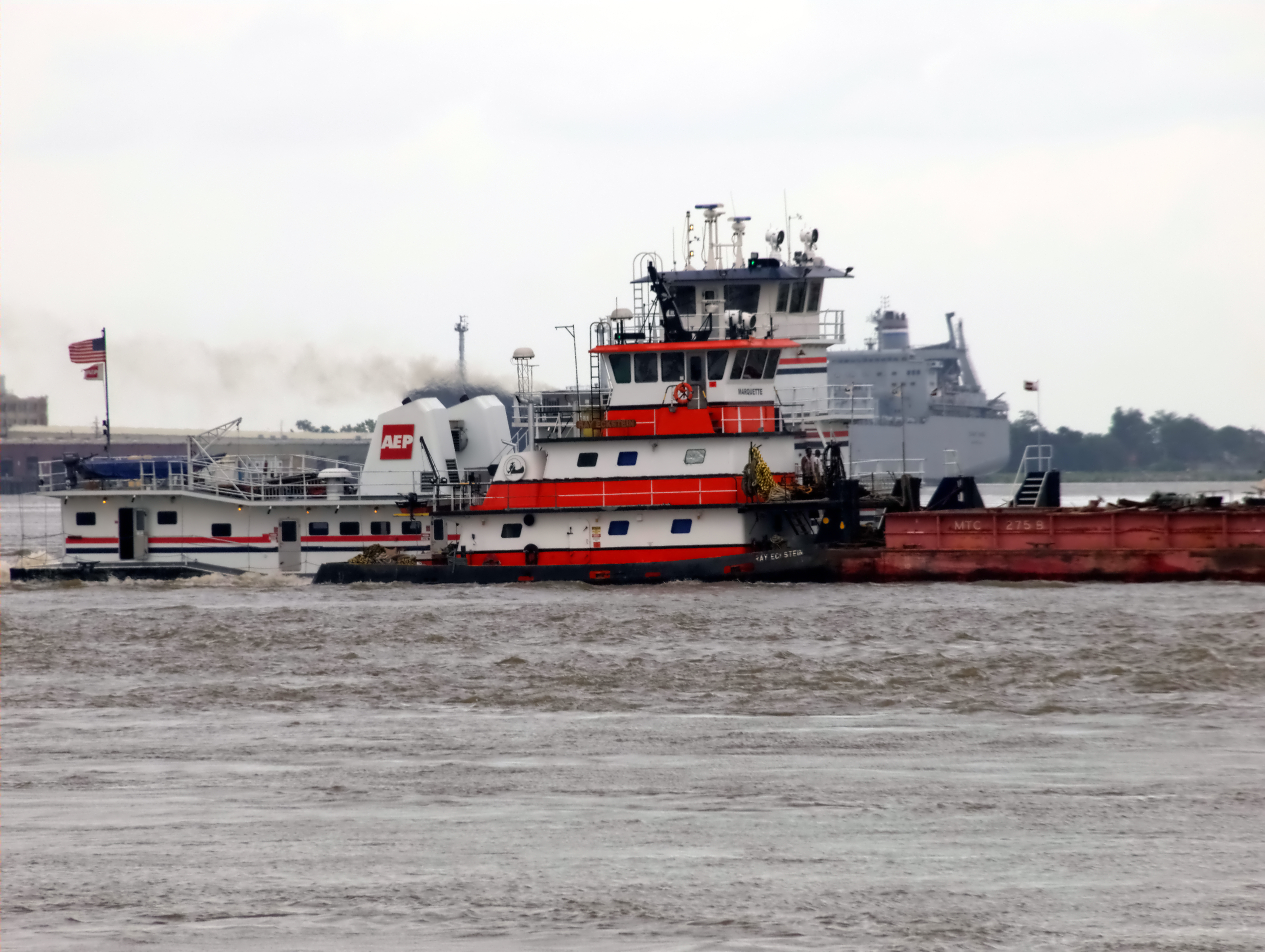 Ray Eckstein (New Orleans, LA)